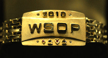 gold bracelet won by the winners of a 2010 WSOP event